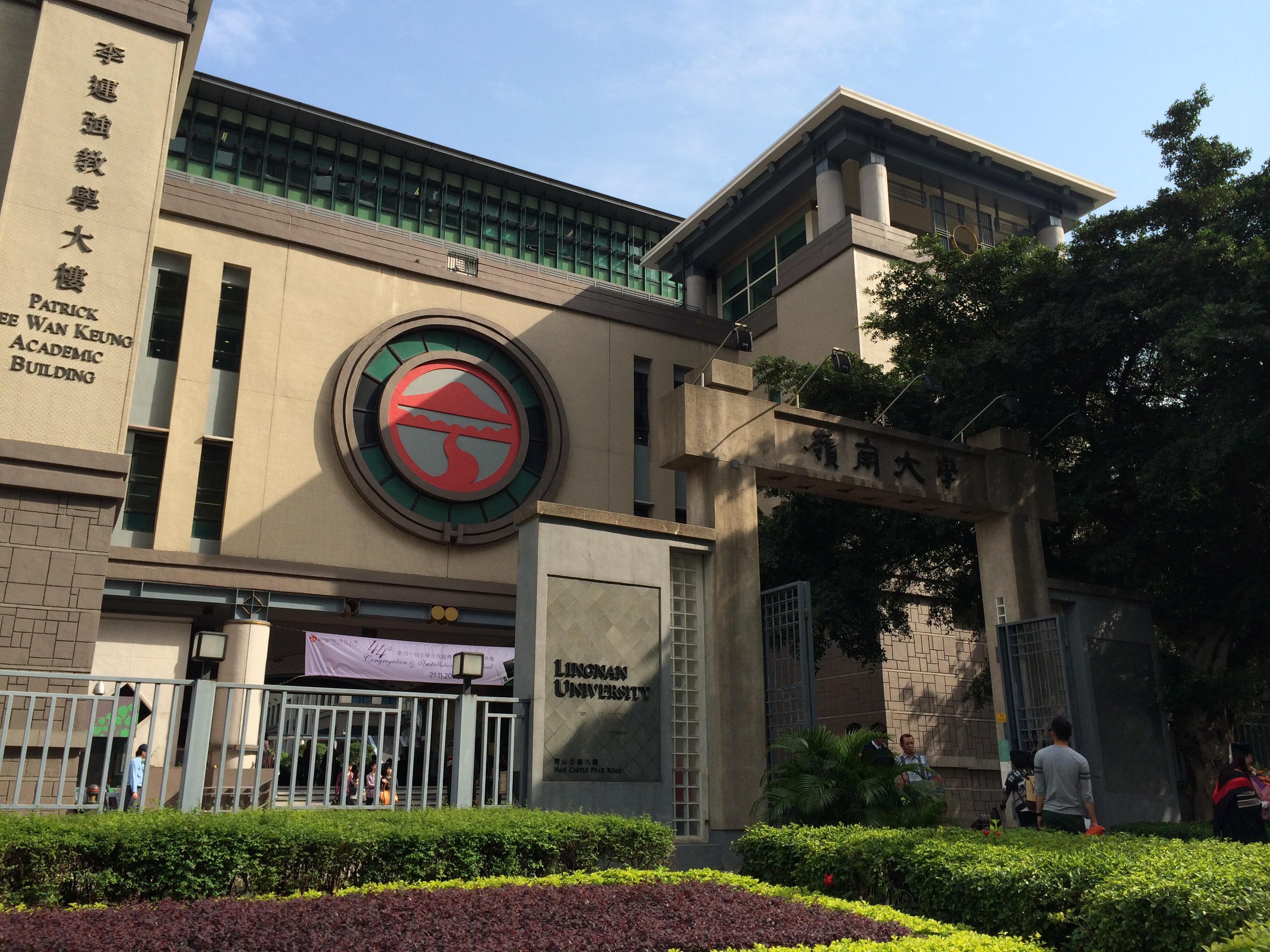 Lingnan University Entrance